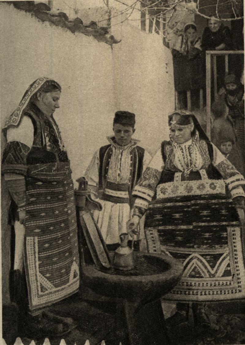 Women from Prilep in national costumes